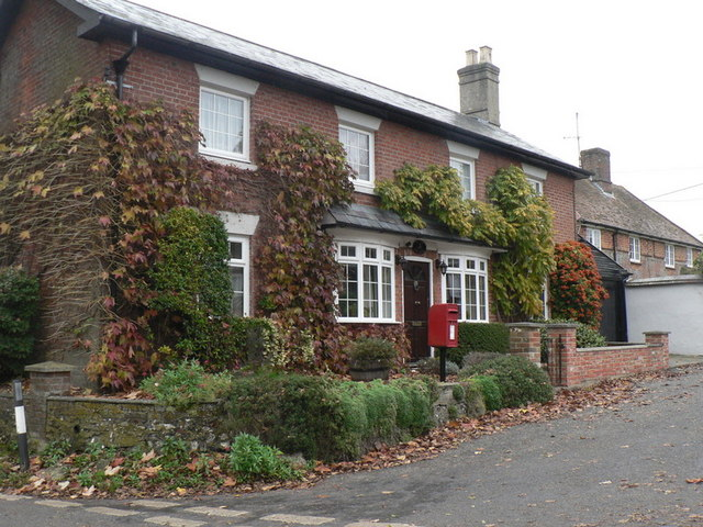 Bishopstone: old post office and postbox № SP5 244, Croucheston The former post office at Bishopstone. I suspect the post office would originally have been in the centre of the village before coming here and, ultimately, closing altogether.